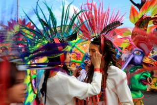 picture of carnaval